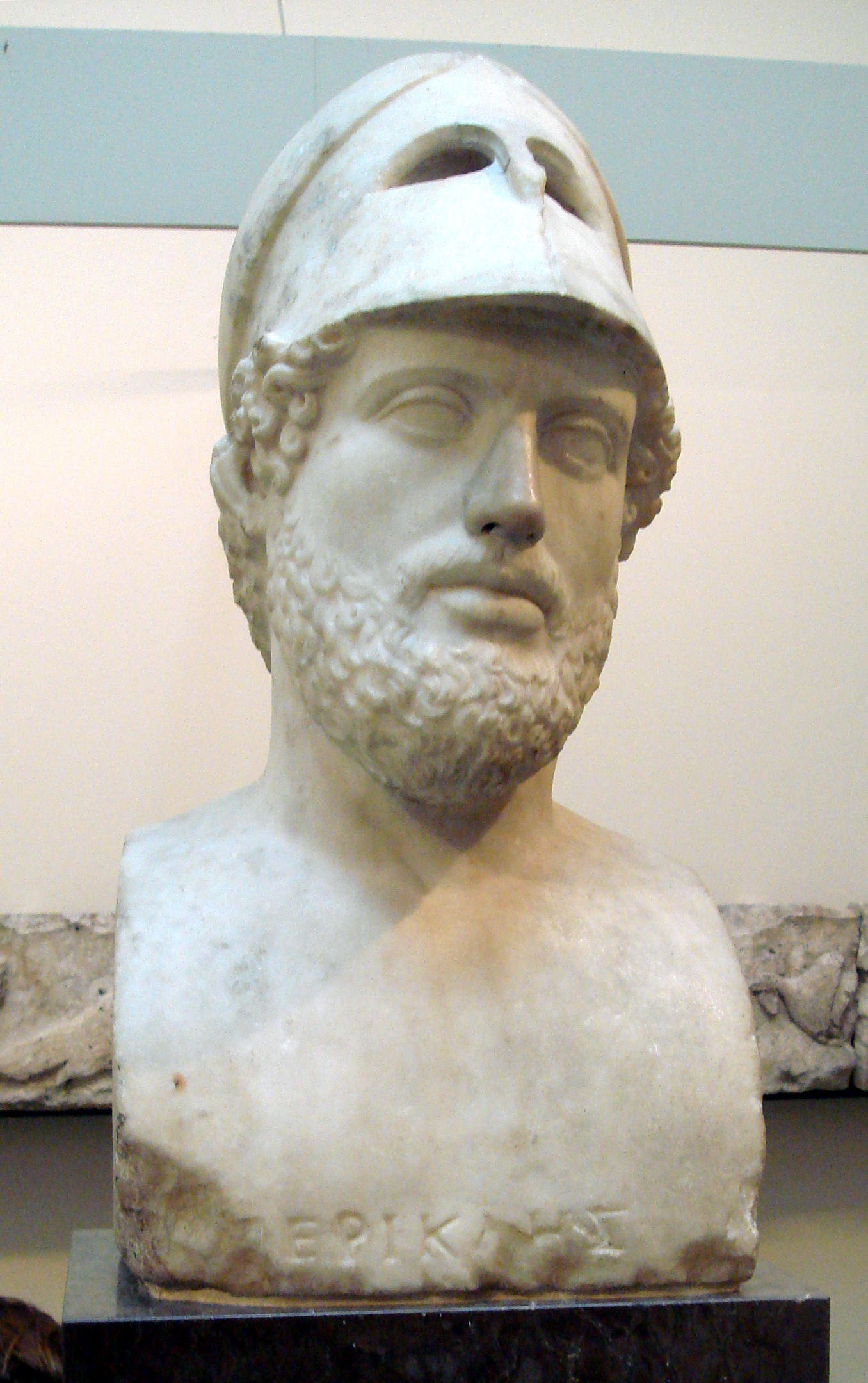 Idealised bust of Pericles. Marble, Roman copy of the 2nd century CE after a Greek original of ca. 440-430 BC. From the Villa Adriana, Tivoli.